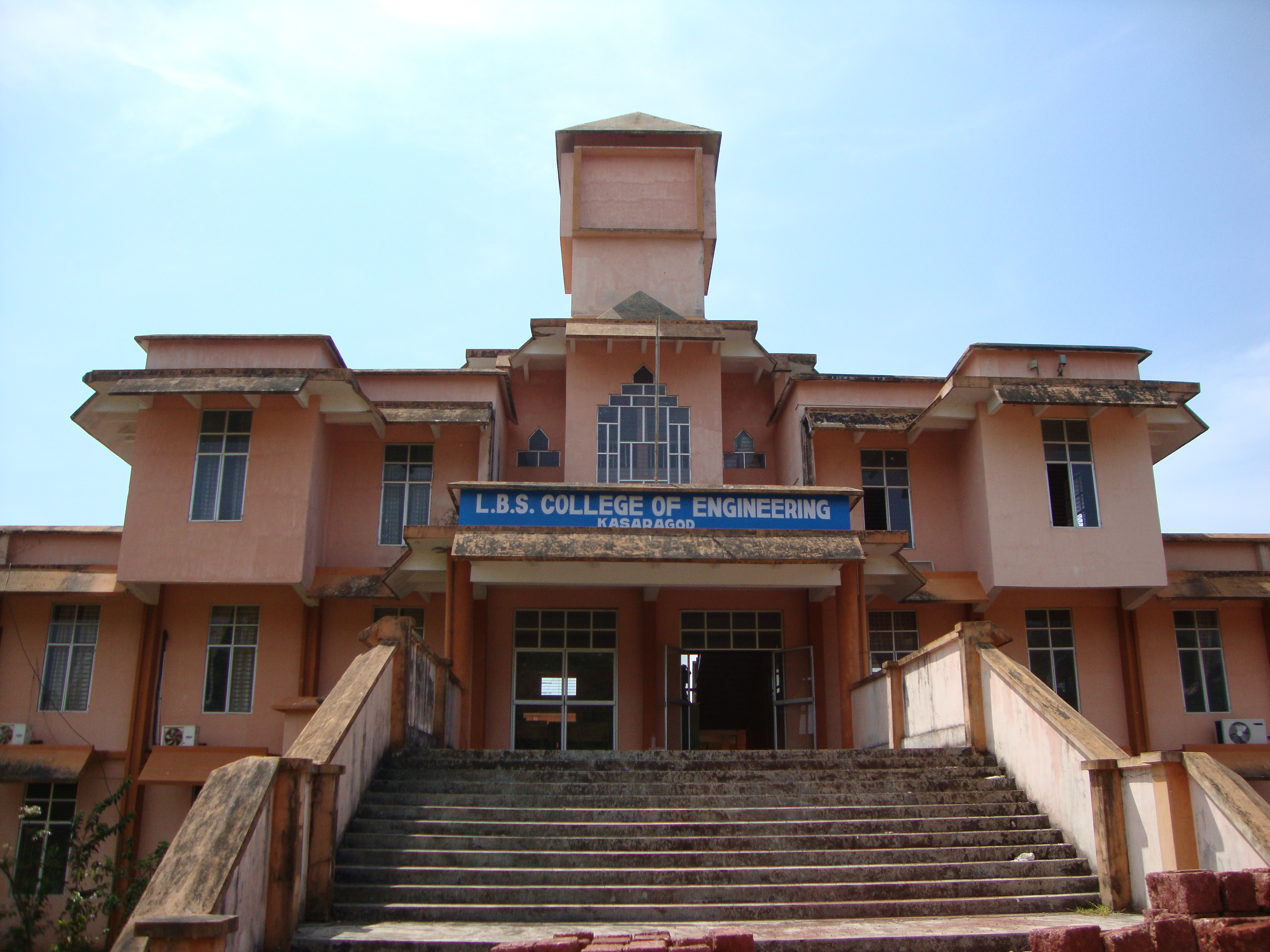 Lal Bahadur Shastry College of Engineering Kasargod